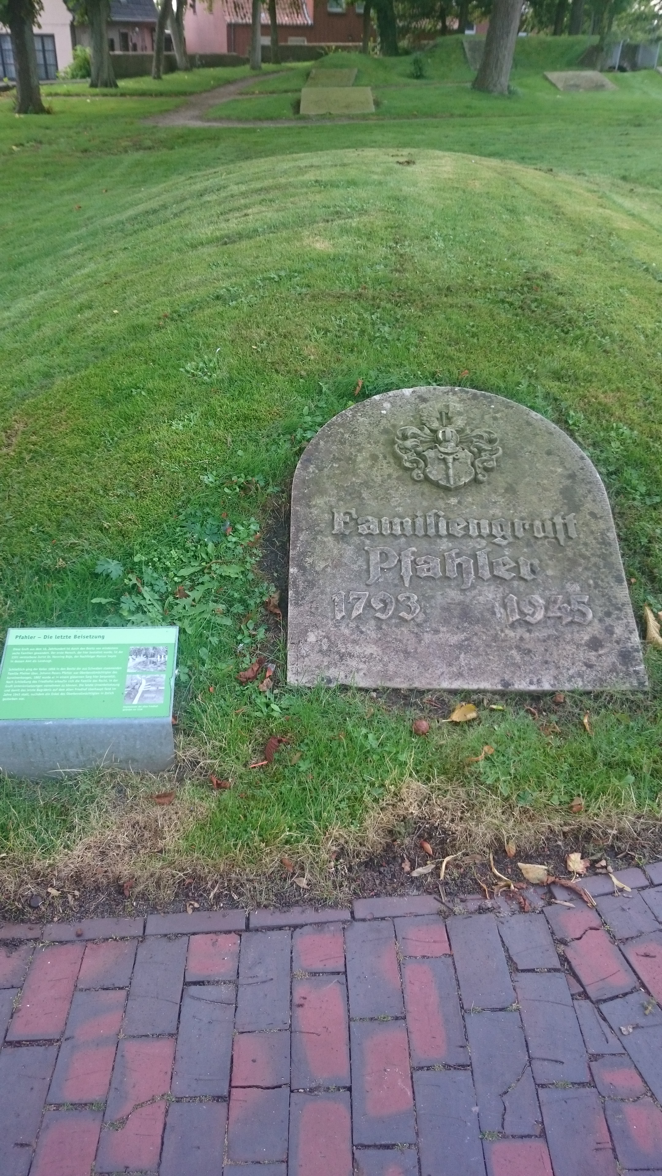 Grave Geschlechterfriedhof